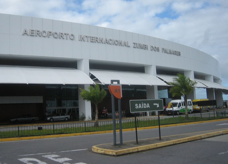 2007 photo of Aeroporto Internacional de Maceió/Zumbi dos Palmares entrance.